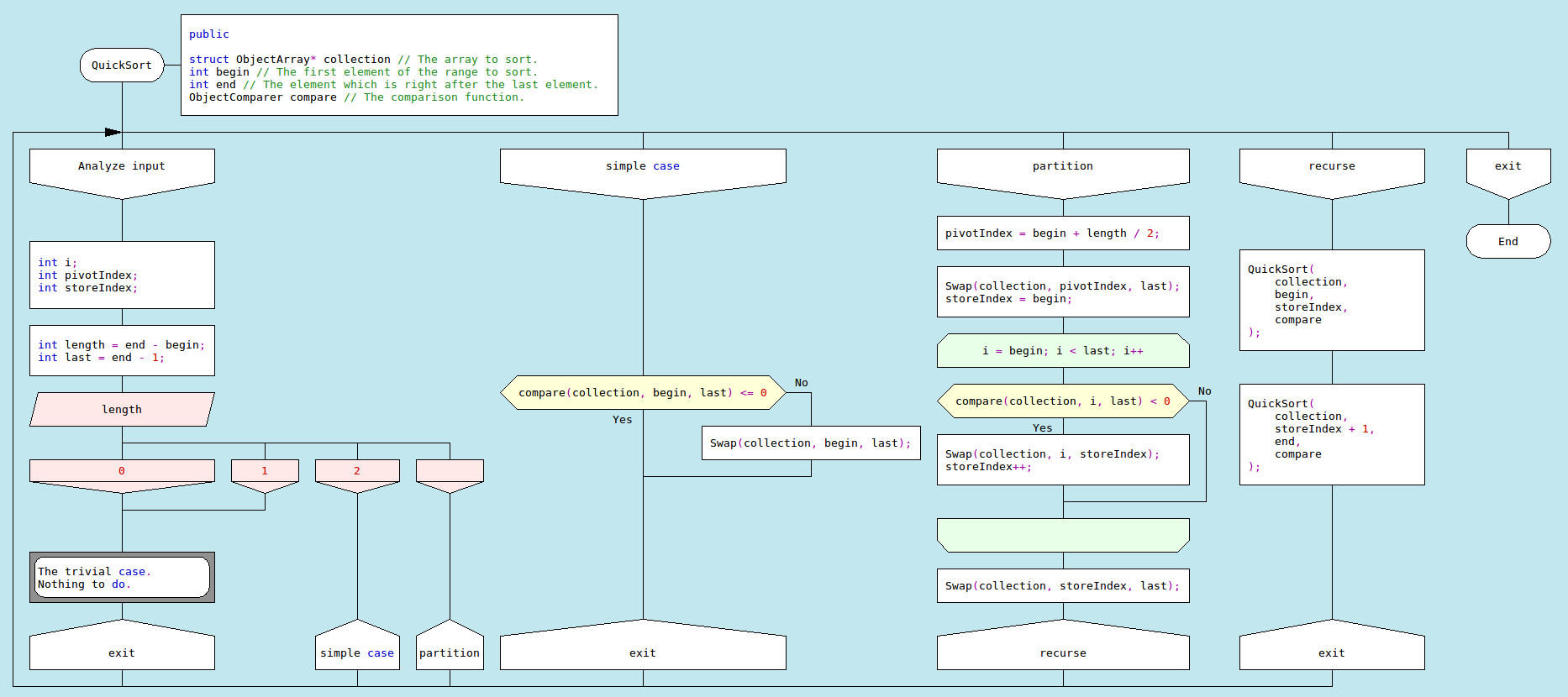 qsort sorting algorithm in DRAKON-C